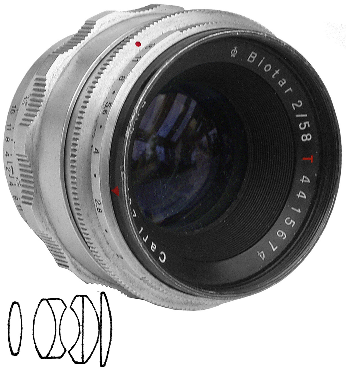 This is a Biotar 1:2/58 mm camera objective by Carl Zeiss with T-coating, serial number 4415674.